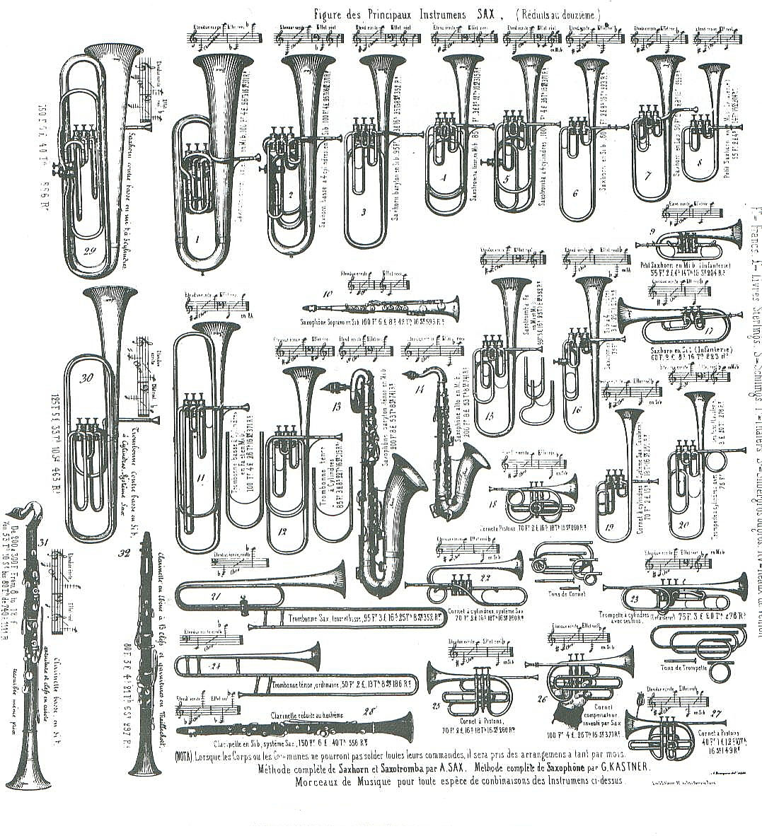 A picture showing various instruments created by Adolphe Sax. They include saxophones, saxhorns, ans saxotrombas.